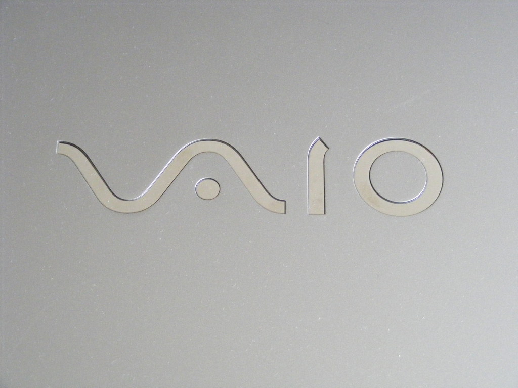 VAIO Logo